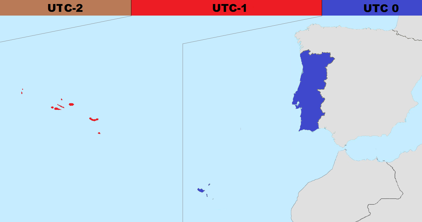 Time in Portugal